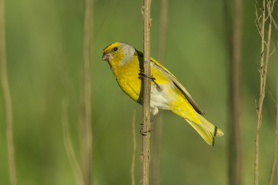 Cape Canary - Natal - South Africa_S4E6774